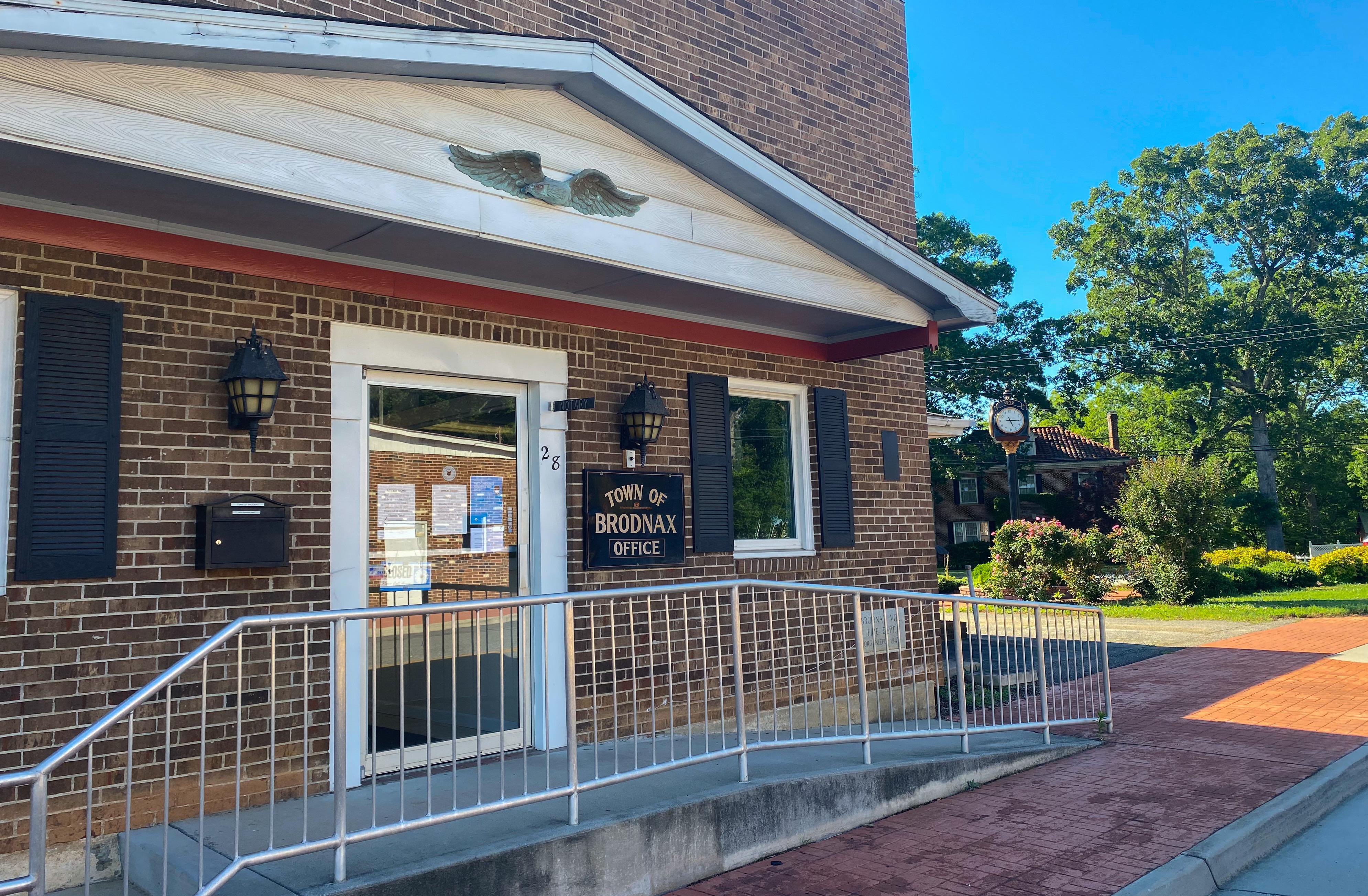 The town building on Main Street across from the Railway Atlantic and Danville Railway Depot and an old building no longer in use.